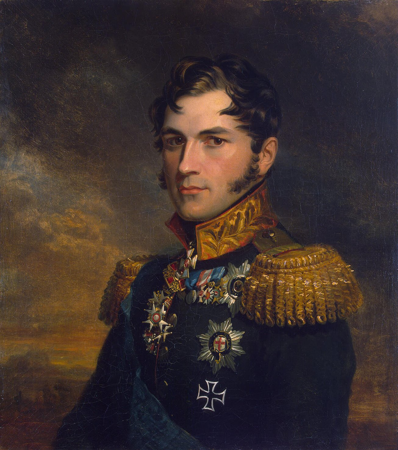 Leopold of Saxe-Coburg-Saalfeld (1790-1865), later King Leopold I of Belgium (1831-1865). He was a former General in the Russian army and Field Marshal in the British army.